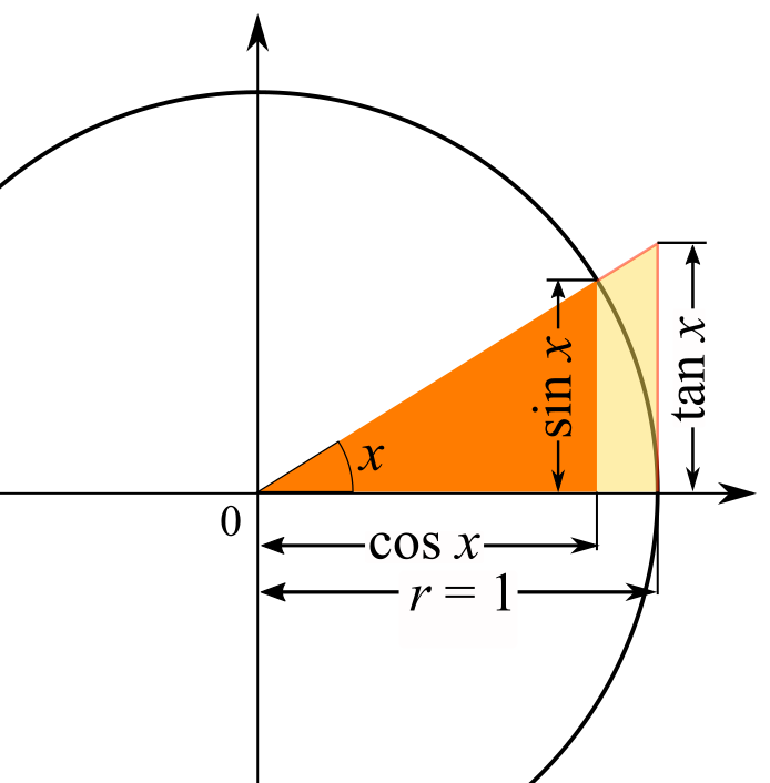 The basic rigonometric funktions